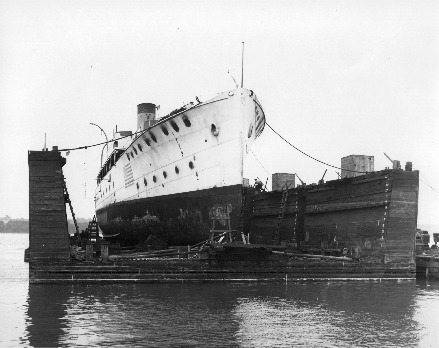 USS Mizpah (PY-29) during conversion to warship. Photo inscribed on reverse by Stephen Etnier: "USS Mizpah Stephen Etnier" (signature)